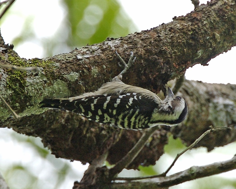 Grey-capped Woodpecker Dendrocopos canicapillus auritus Phuket Island, Thailand 28th. August 2007 Thai: นกหัวขวานด่างแคระ Distribution: ssp _Q0S9504